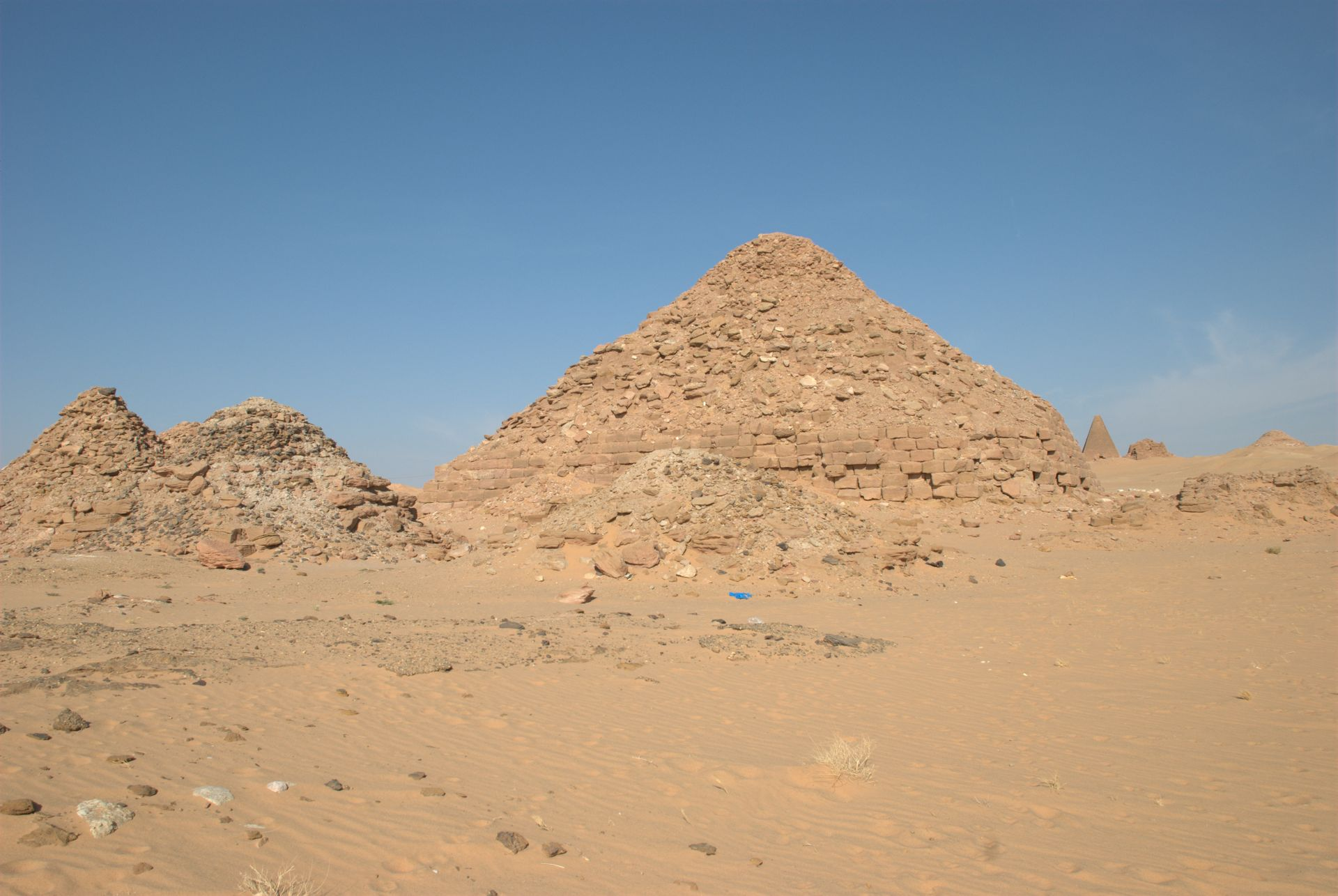 Pyramids west of Jebel Barkal, Sudan. South group